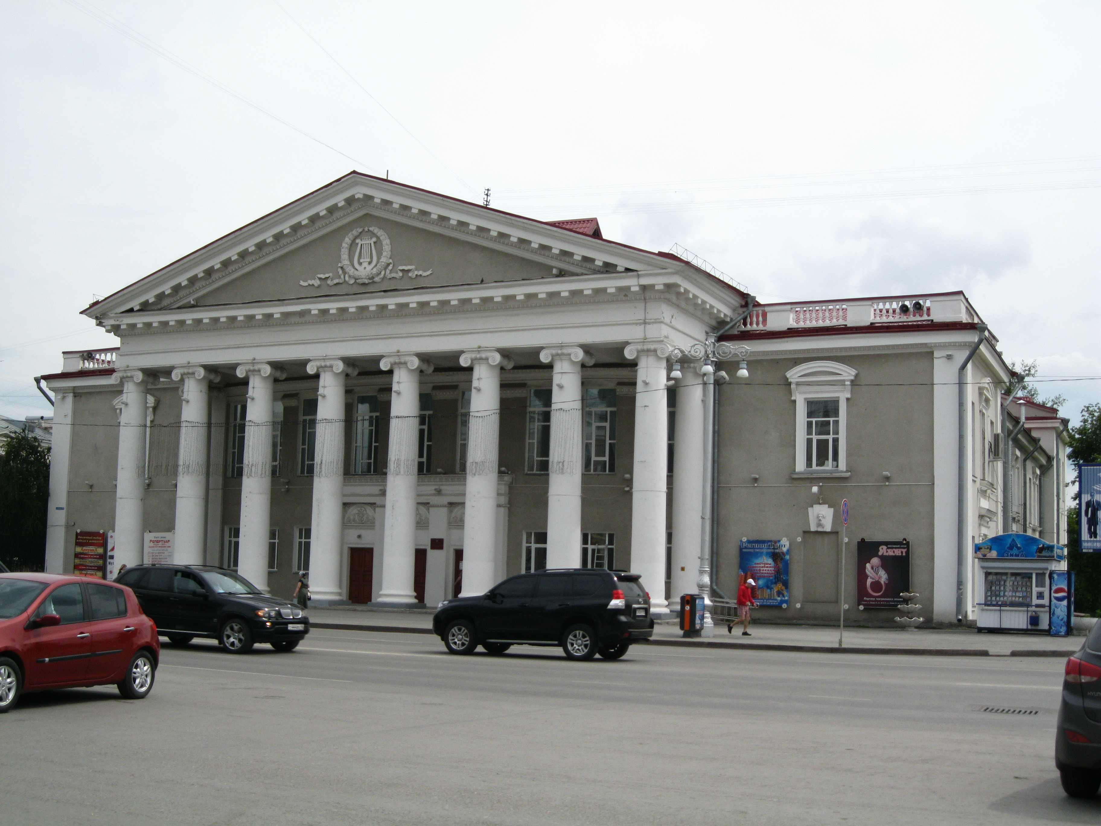 State Drama theatre in Kurgan, Russia